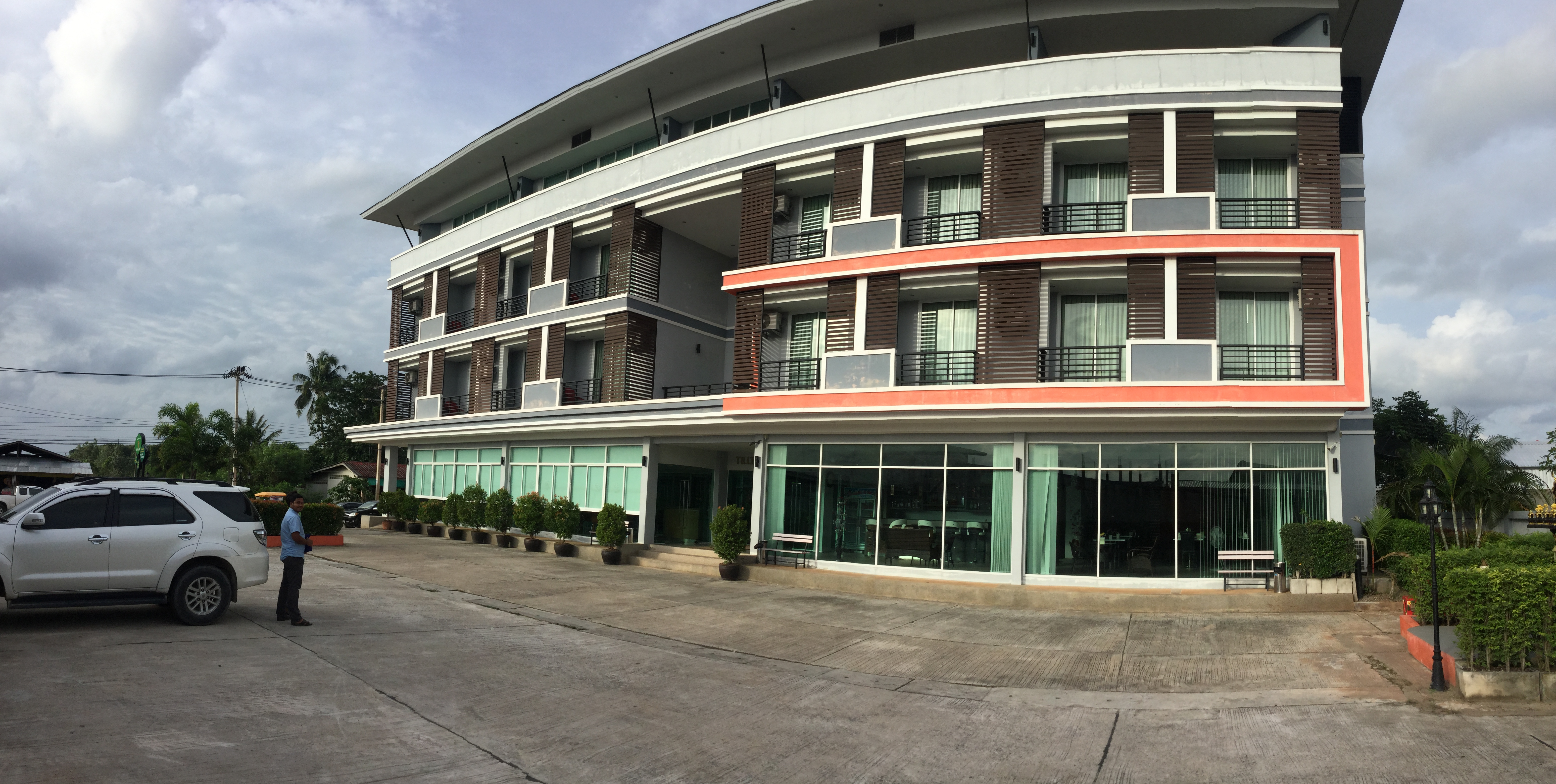 Lam Thap, Lam Thap District, Krabi 81120, Thailand